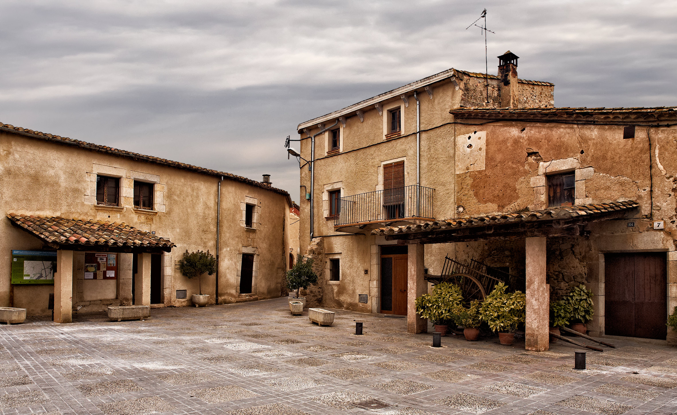 Center of Vilablareix (Catalonia, Spain)